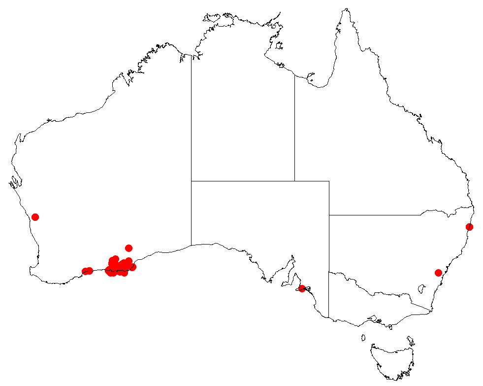 Hakea clavata Occurrence data downloaded from Australasian Virtual Herbarium on 22 November 2018 using